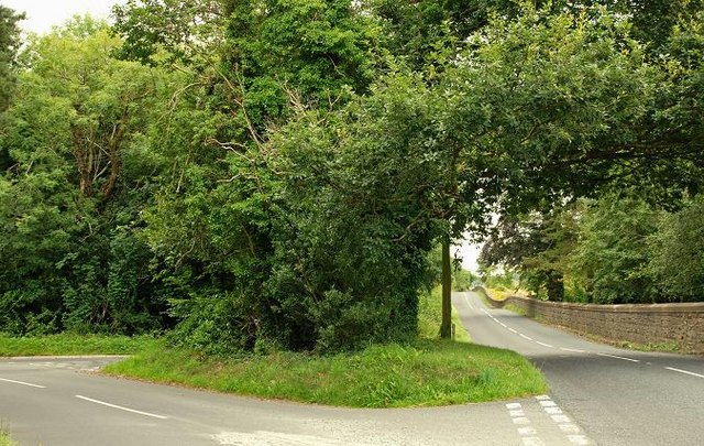 Two roads near Crossgar On the left the Creevy Road, a minor road running off the main Belfast – Downpatrick road, to the south of Saintfield. The Crossgar - Ballynahinch road is on the right with part of the grounds of the Rademon Estate behind the wall. The undulations of the Ballynahinch Road are a sign of drumlin country.